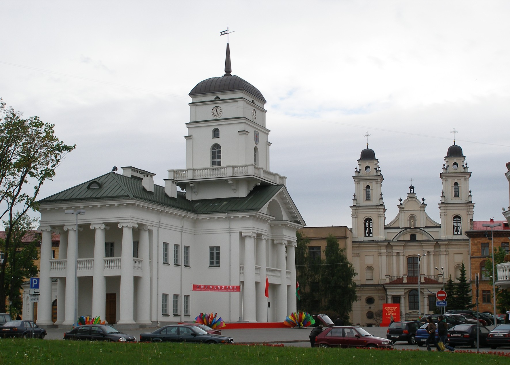 City Hall and Archcathedral in Minsk